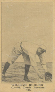 1917 baseball card of Bill Rumler as a member of the St. Louis Browns.